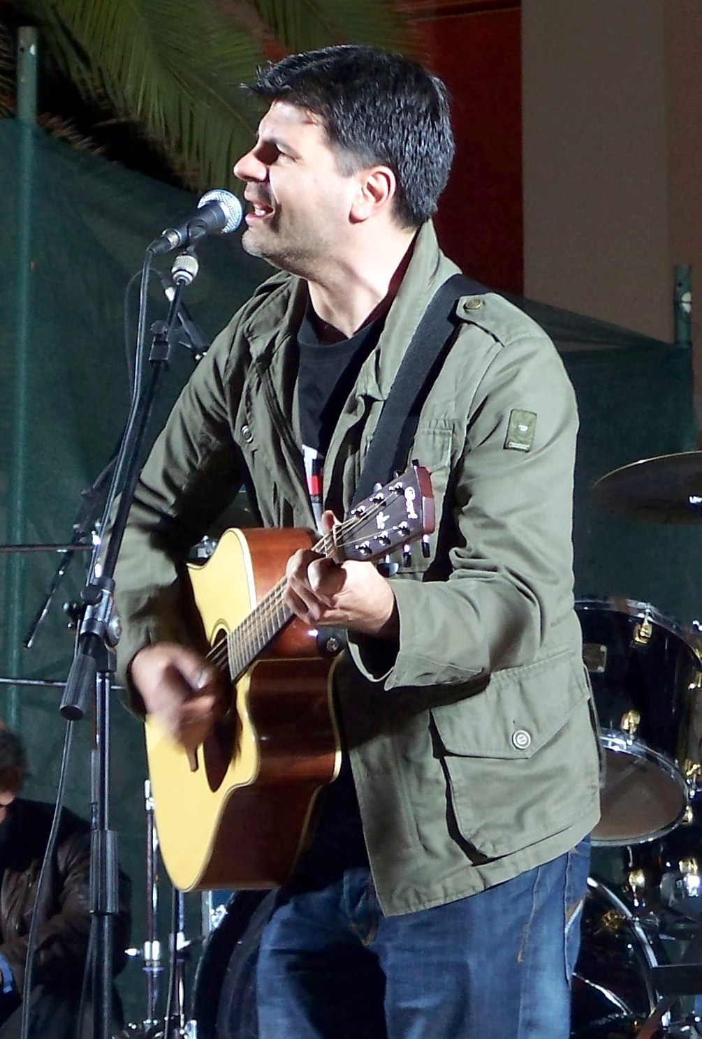 Greek singer Foivos Delivorias.